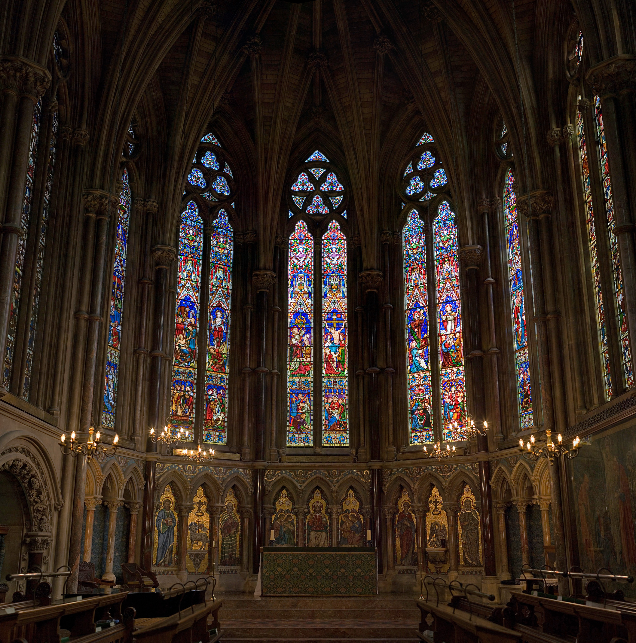 The intricate stained glass of the Exeter College Chapel, Oxford, England. Taken by myself as a mosaic stitched image with a Canon 5D and 85mm f/1.8 lens.